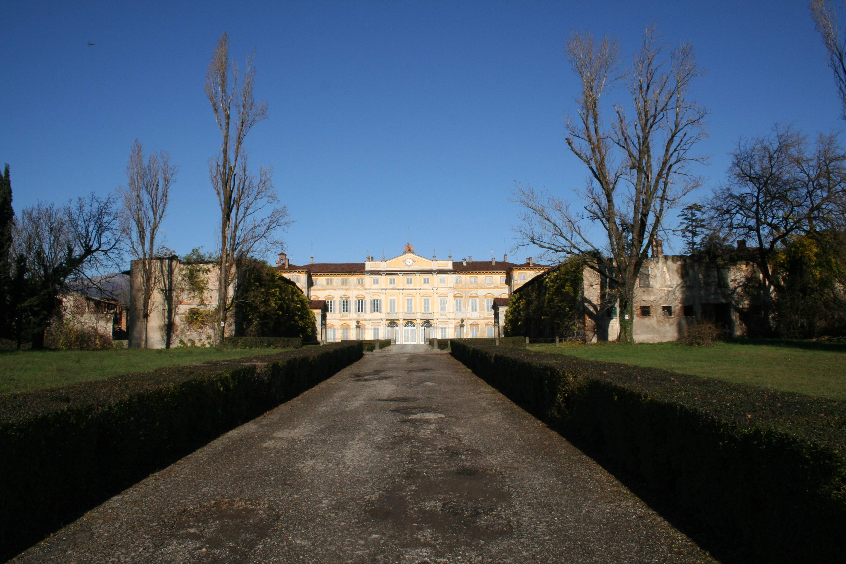 Ponte San Pietro is a municipality in Bergamo province in the Lombardy region, Italy